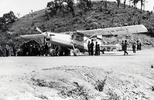 Continental Air Service Porter in Laos Correction this is Continental Air Services Inc. Porter. Bob Peterson [S/N 620, PC-6/B1-H2], K.H. (not Air America plane)